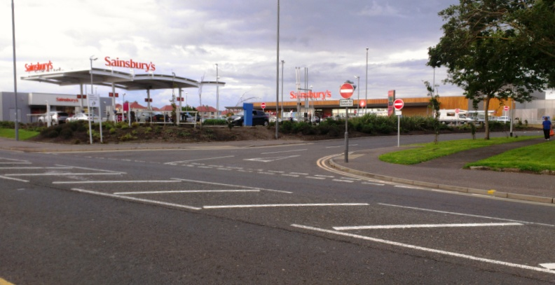 This photograph shows the site of the former Centrum Arena (Prestwick) on 125 Ayr Road.